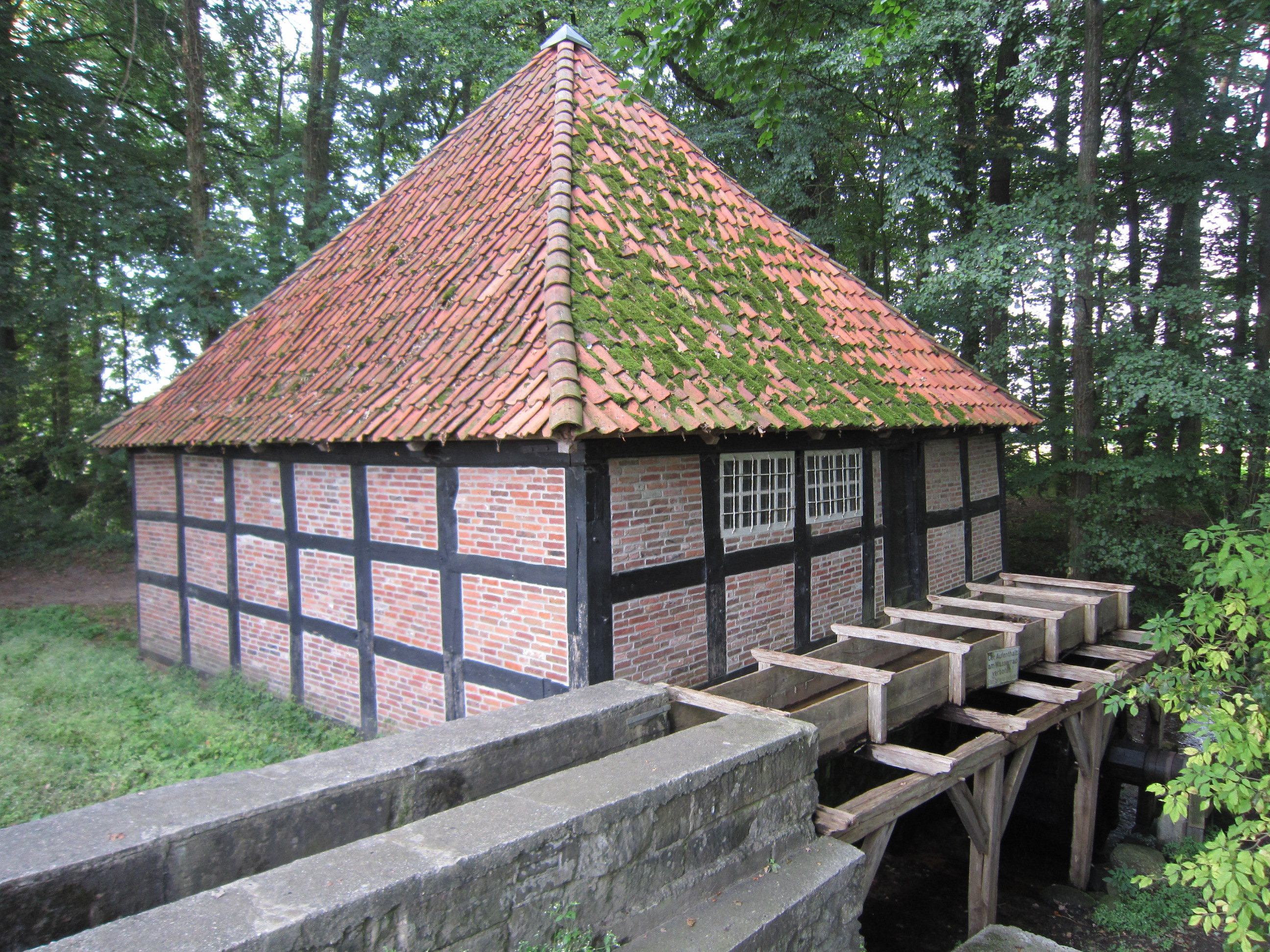 Watermill "Ramings Mühle" near Lengerich (Emsland)